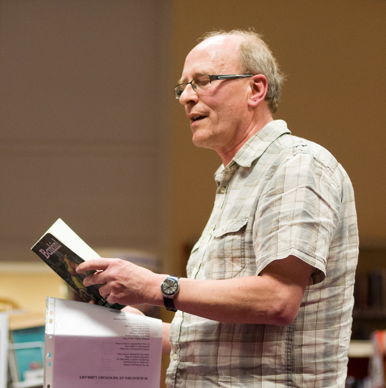 Welsh poet Mike Jenkins performing at Rhydyfelin Library, 3rd October 2014